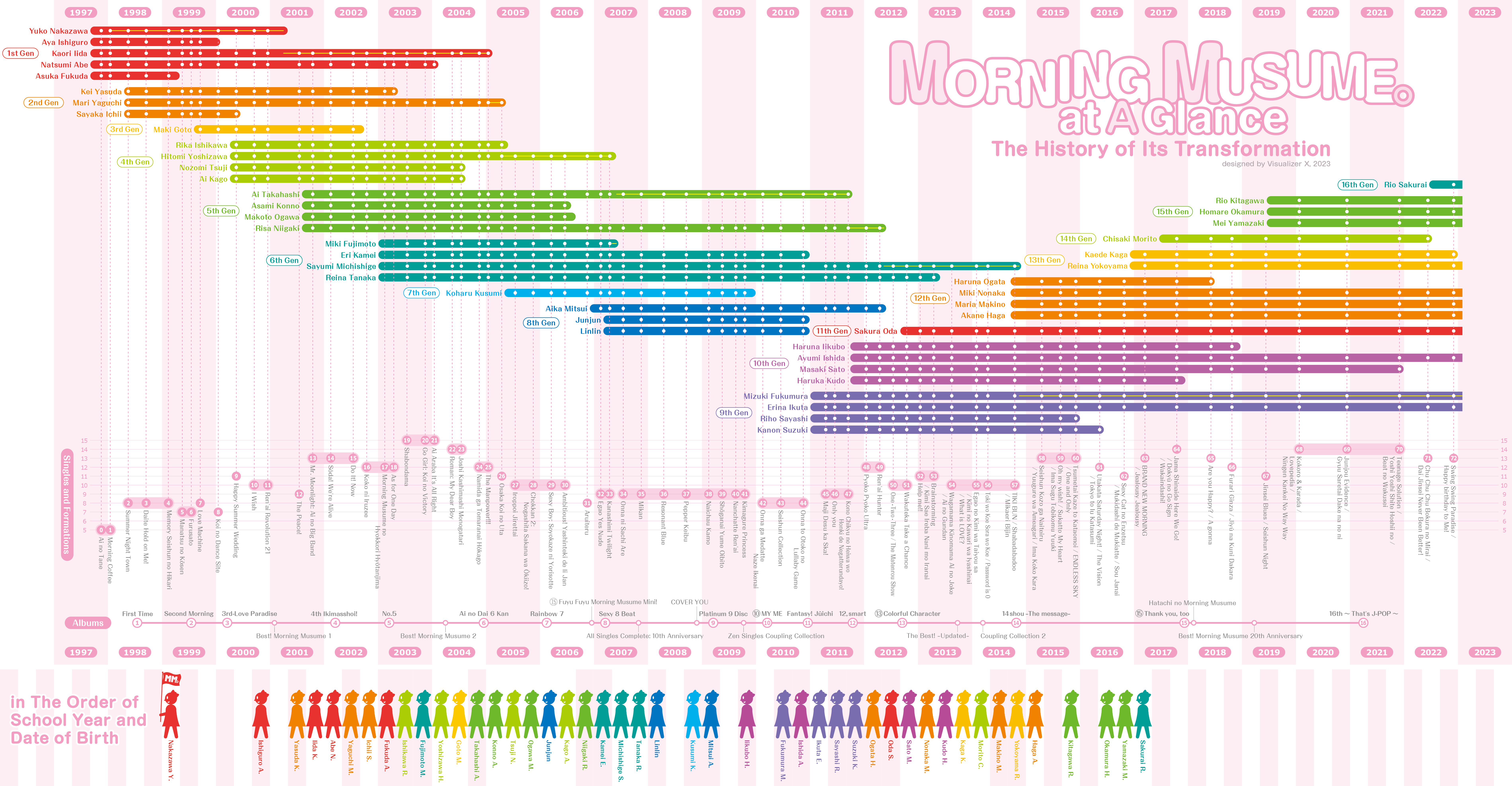 Presents the permanence of a pop group which adopts the member-replacement system